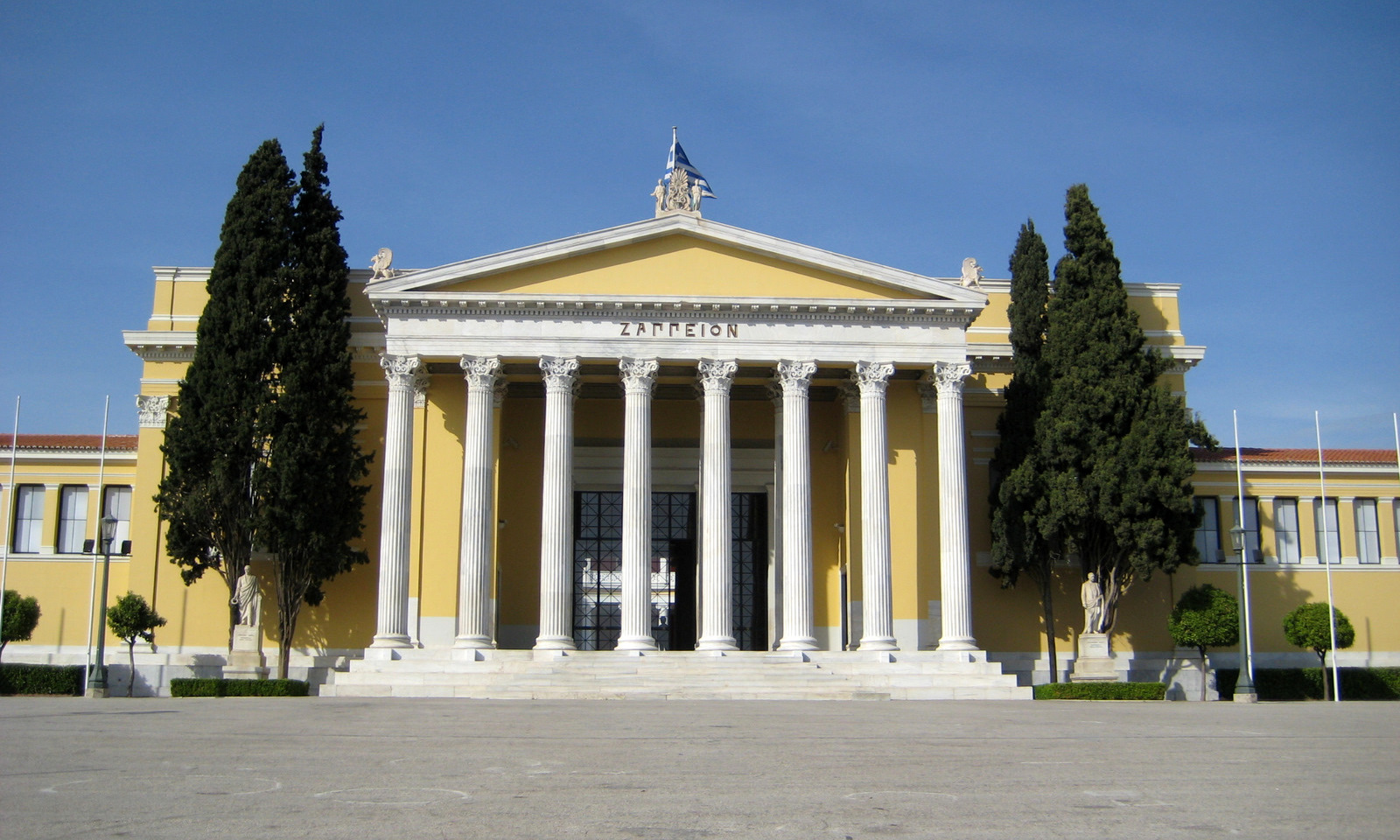 Museum